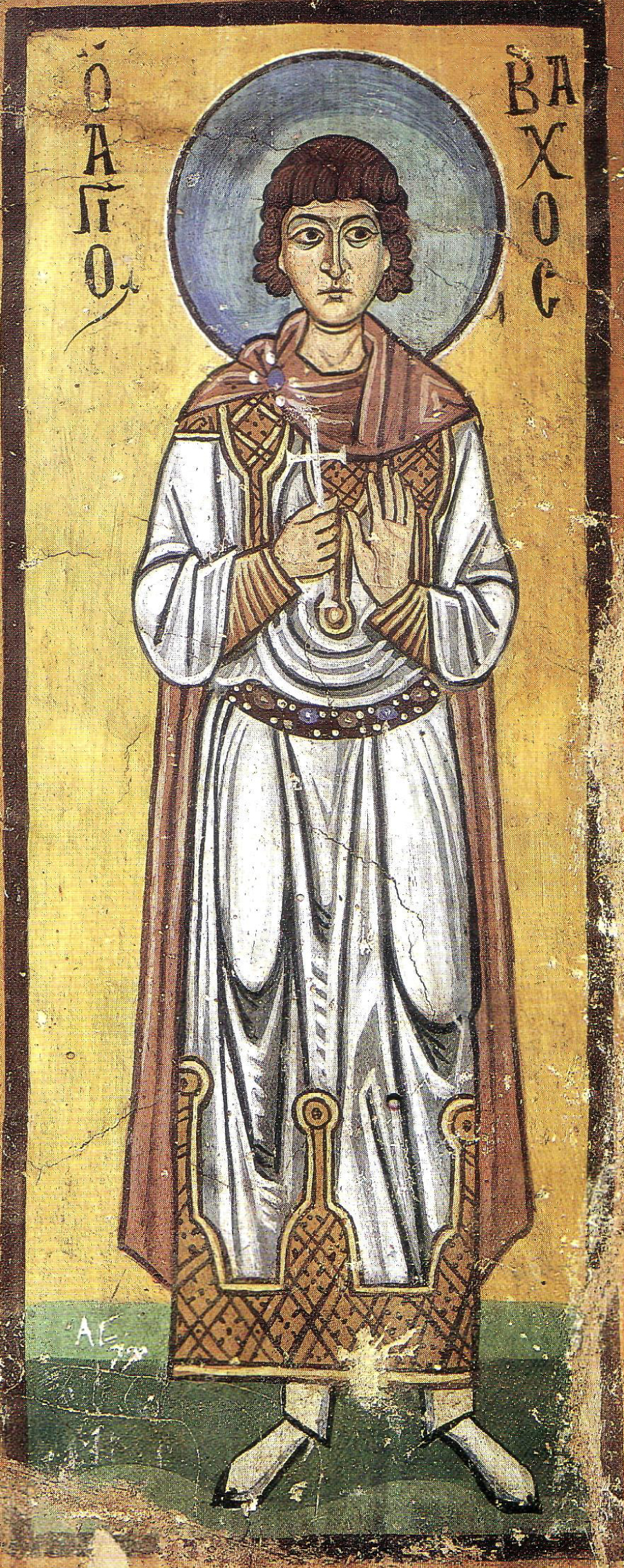 Hosios Loukas Monastery, Boeotia, Greece